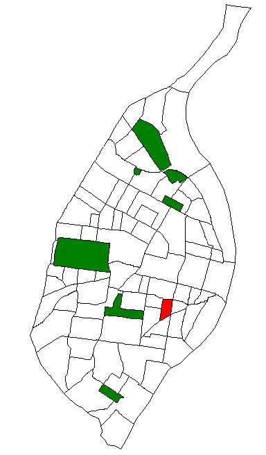 Map of St. Louis Neighborhood #24